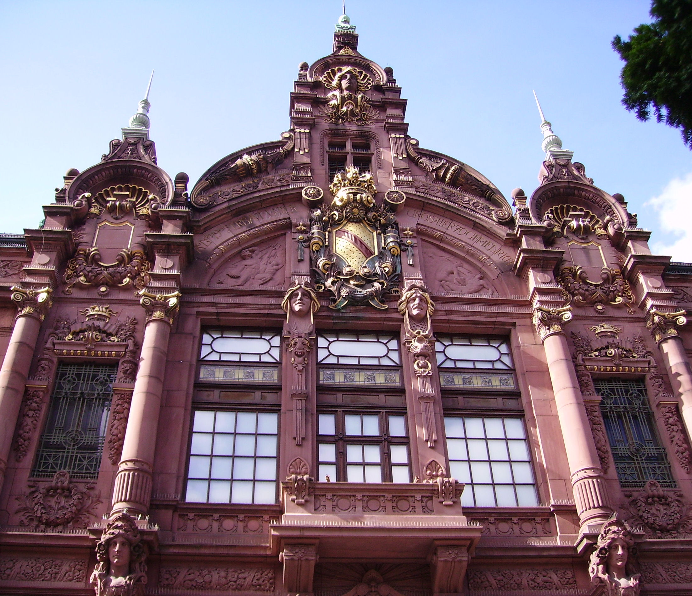 university of Heidelberg, Germany